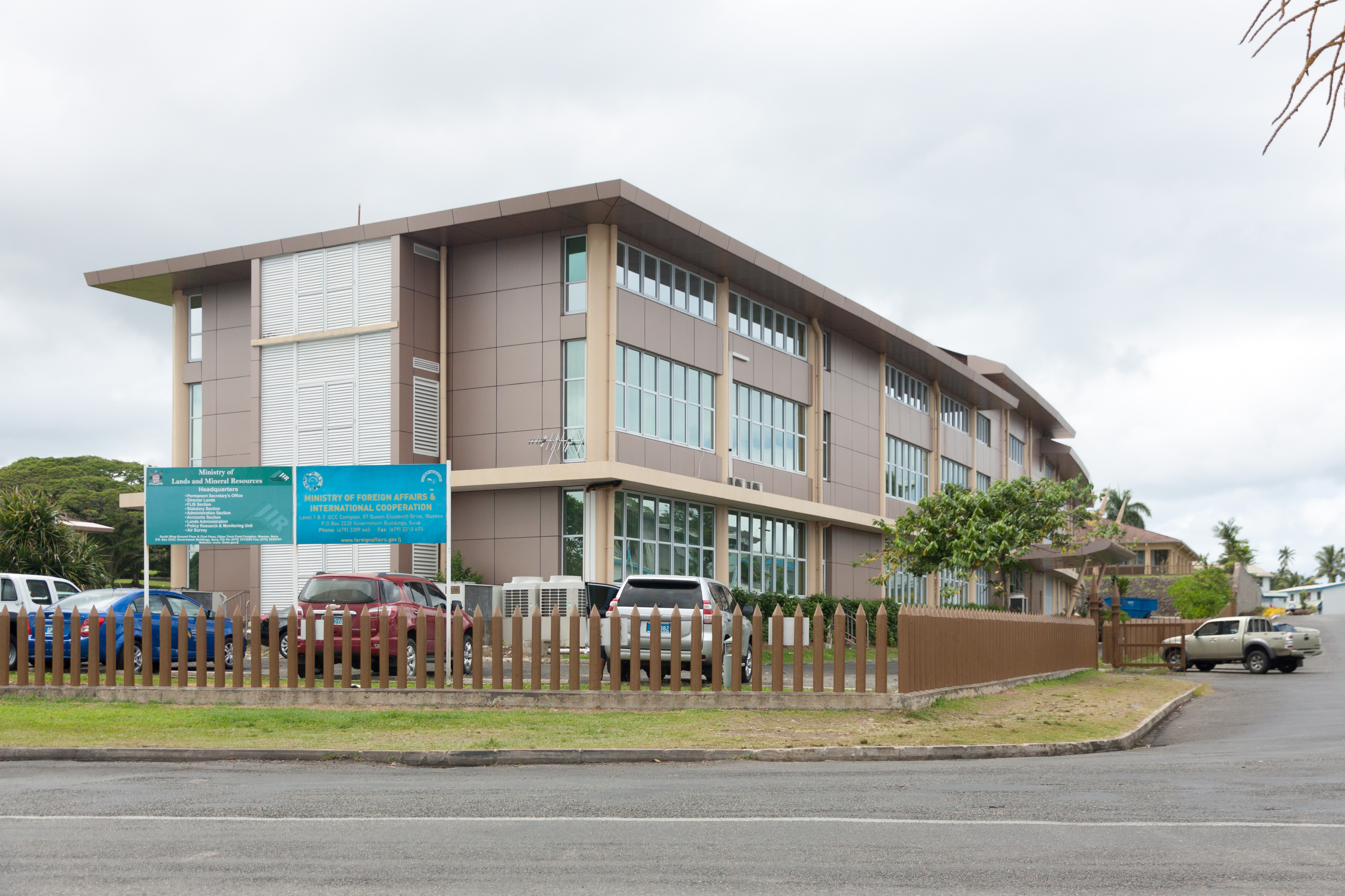 Ministry of Foreign Affairs (Suva, Fiji)